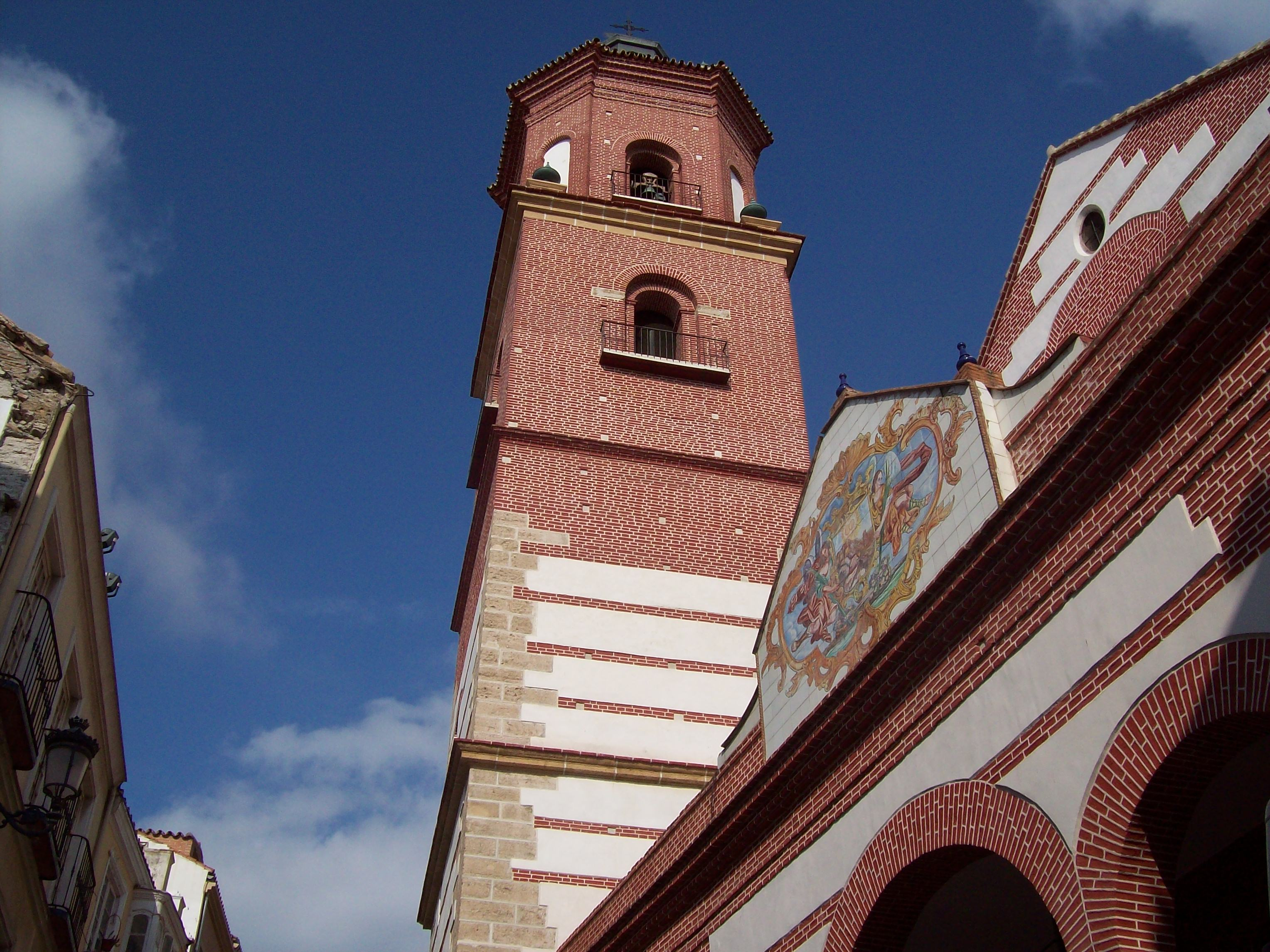 Holy Martyrs Church, Málaga, Spain